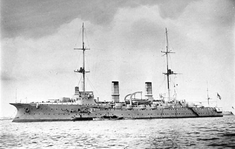 German armoured cruiser SMS Hansa, view from port